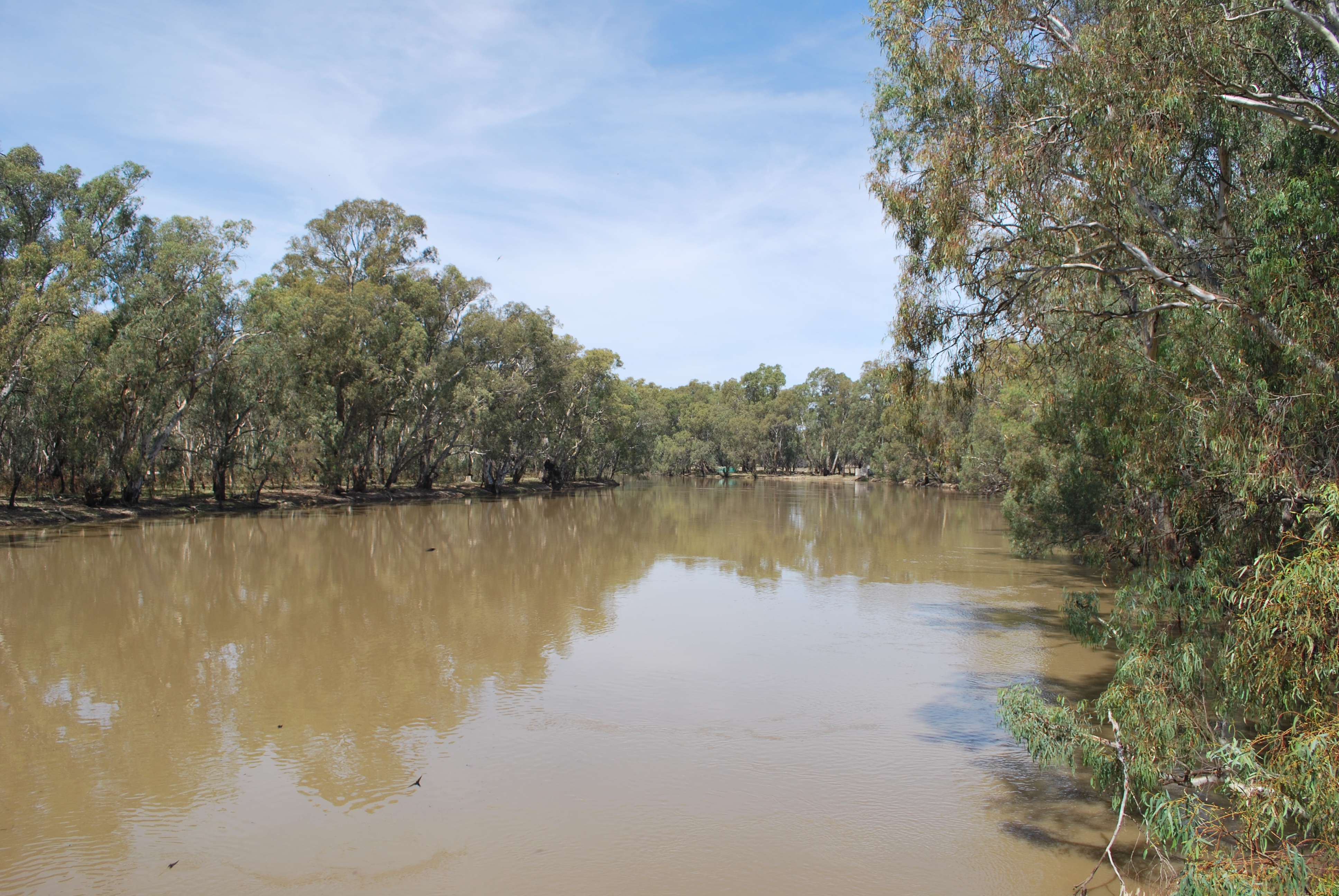 Murray River at Nyah, Victoria